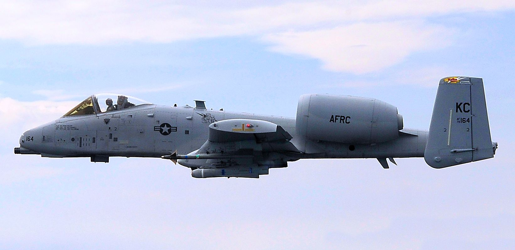 An A-10 Thunderbolt II from the 442nd Fighter Wing flies past a KC-135 Stratotanker above Whiteman Air Force Base, Mo., during a refueling training mission Aug. 4. The 434th Air Refueling Wing Stratotankers, out of Grissom Air Reserve Base, not only trained with the A-10s, but helped the 442nd FW display an Air Force training mission to civilian employers from the local area. (U.S. Air Force photo/ Senior Airman Cody H. Ramirez)